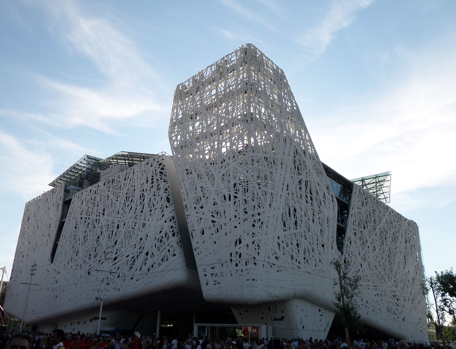 Italian Pavillion - EXPO 2015